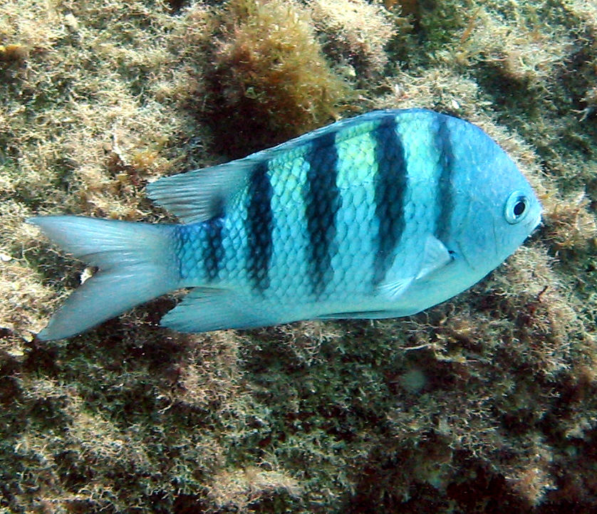 Sargentinho, Sergeant Major fish, píntano (Abudefduf saxatilis). Fish of the Pomacentridae familySargentinho (abudefduf saxatilis). Peixe da família Pomacentridae